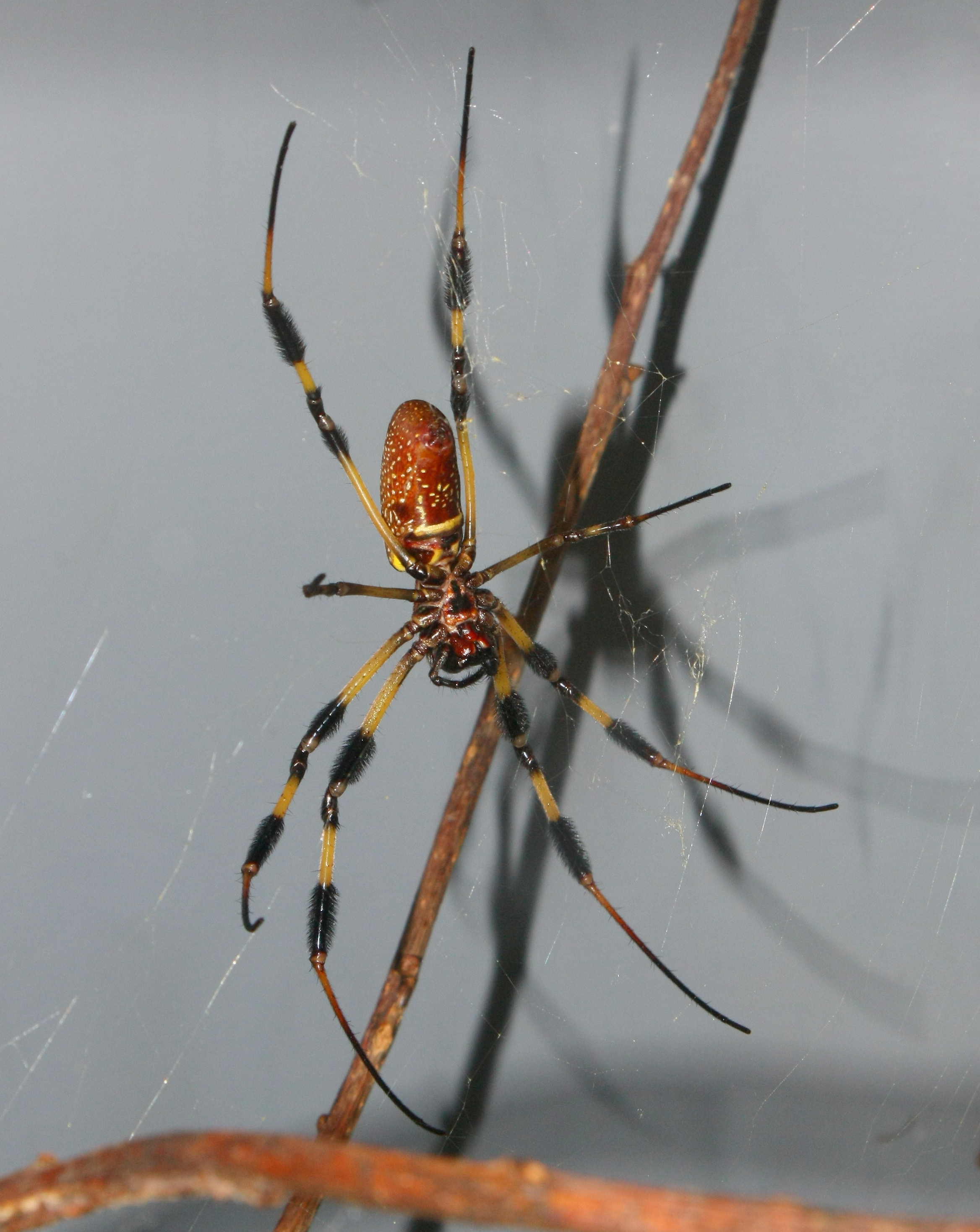 Nephila clavipes - Orb Web spider. Taken at the Cincinnati Zoo.